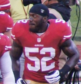 San Francisco 49ers linebacker Patrick Willis after a preseason game in 2012